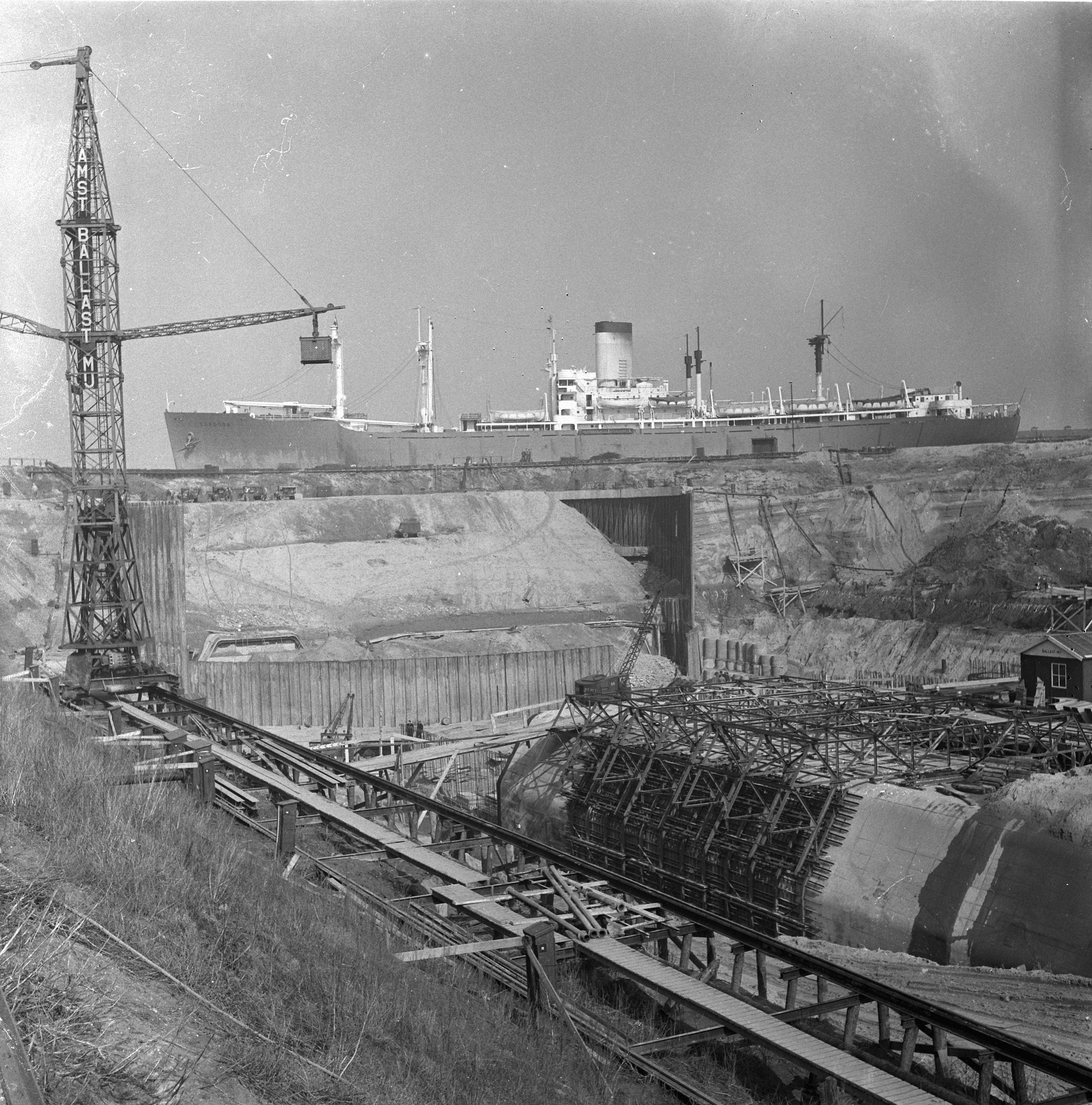 Collection / Archive: Fotocollectie Anefo Velsertunnel under construction with sea vessel Cordoba steaming on the North Sea Canal Ship: Look up "IMO 5079719" The Argentine ship CORDOBA had left Amsterdam heading to Argentina and Chile with passengers and general goods Cargo ship, type VICTORY VC2-S-AP2 Shipyard: Bethlehem - Fairfield Shipyard Inc., Baltimore, United States Yard number: 2,473 Call sign: LQAS Crew: 47 Passengers: 20 GRT: 9,374 NRT: 4,549 DWT: 6,350 Length: 138.78 Beam: 18.90 Draft (loaded): 8.70 Holds: 5 Deck equipment (Quantity × tons): Derricks: 14 × 5 1945, June. Launched for the War Shipping Administration (WSAT) (1597) / USAT; (MC Number 820) as N. Y. U. VICTORY. (USA) 1947. Converted for passenger transport by the construction shipyard 1947. Transferred to Río de la Plata S.A. of Overseas Navigation. (Dodero), adapted for immigrant transport. Renamed Cordoba (Argentina) 1949. Transferred to the Argentine Government when the Dodero company was nationalized 1951. Transferred to F. A. N. U. Argentine Fleet of Overseas Navigation. - Cordoba (Argentina) 1955. Converted back to freighter by a yard of F. A. N. U. in Avellaneda. GRT 7,604. 20 passengers 1961, May 24. Transferred to Empresa Líneas Marítimas Argentinas (E. L. M. A.) (Argentina) by merging FME and FANU - Cordoba (Argentina) 1971. September 15. Decommissioned, sold for scrapping 1972. March. Scrapped in Campana